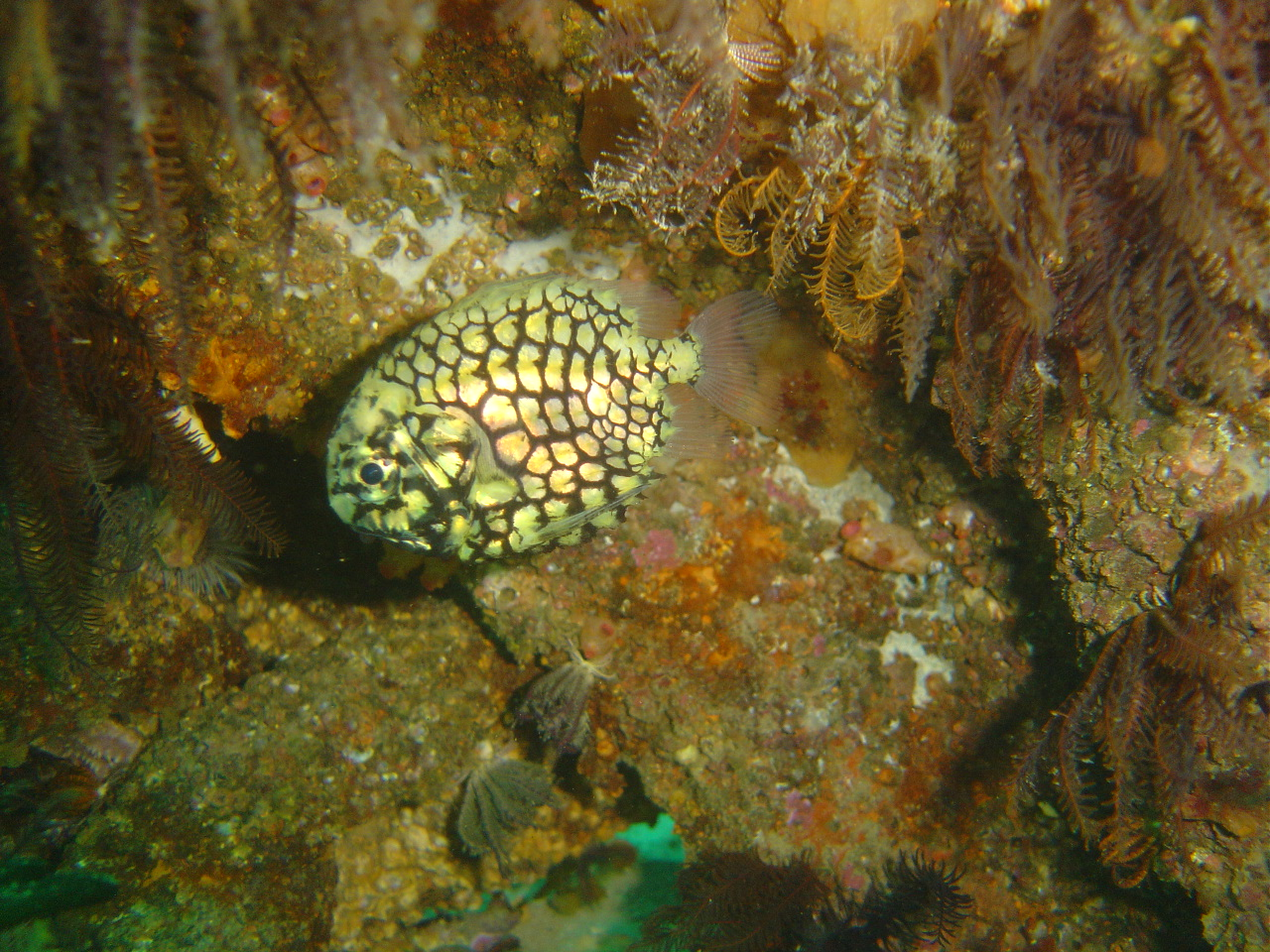 Simon's Town, Cape Peninsula.